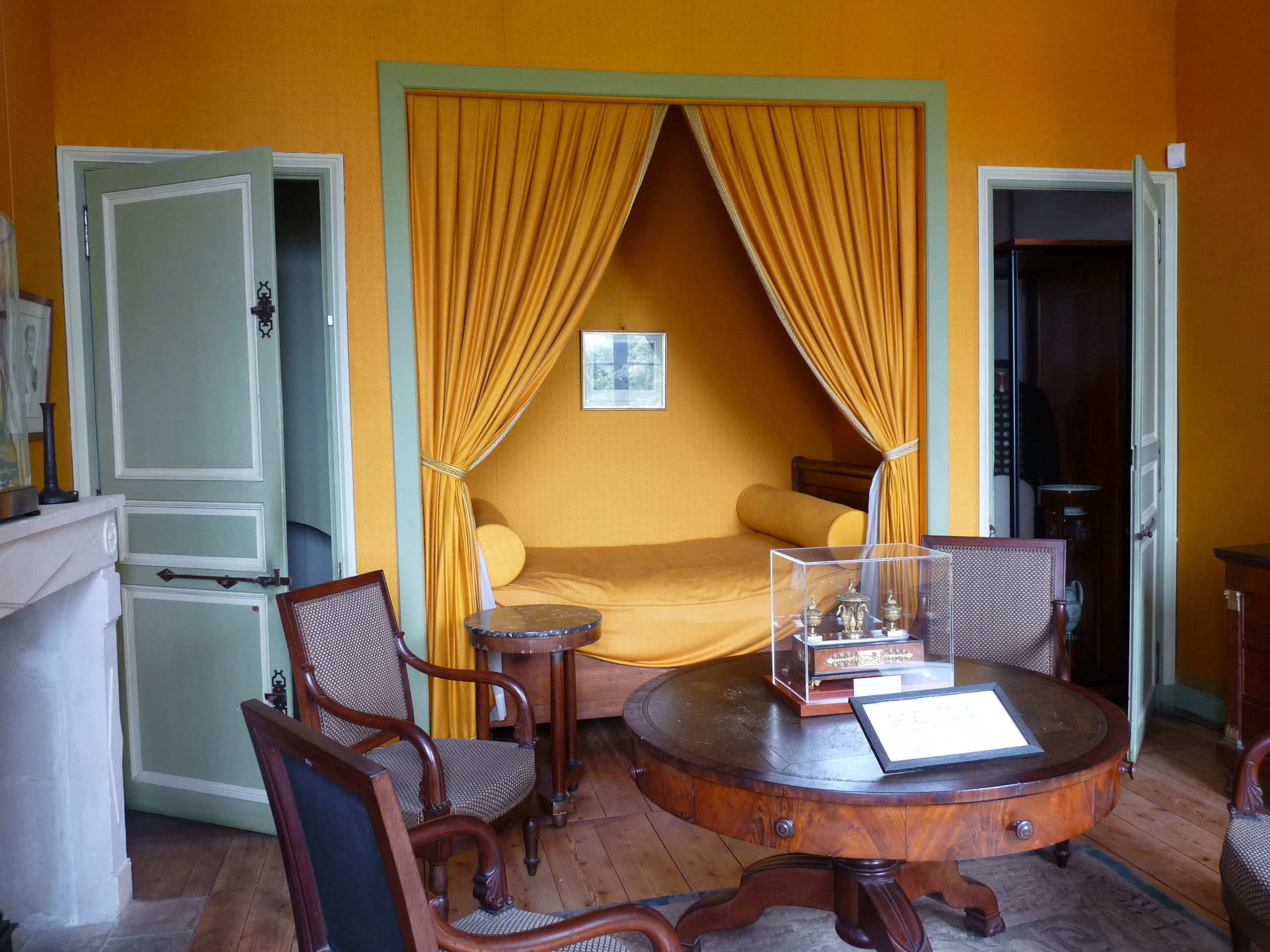 Napoléon's room (Musée napoléonien (Ile d'Aix, Charente-Maritime)